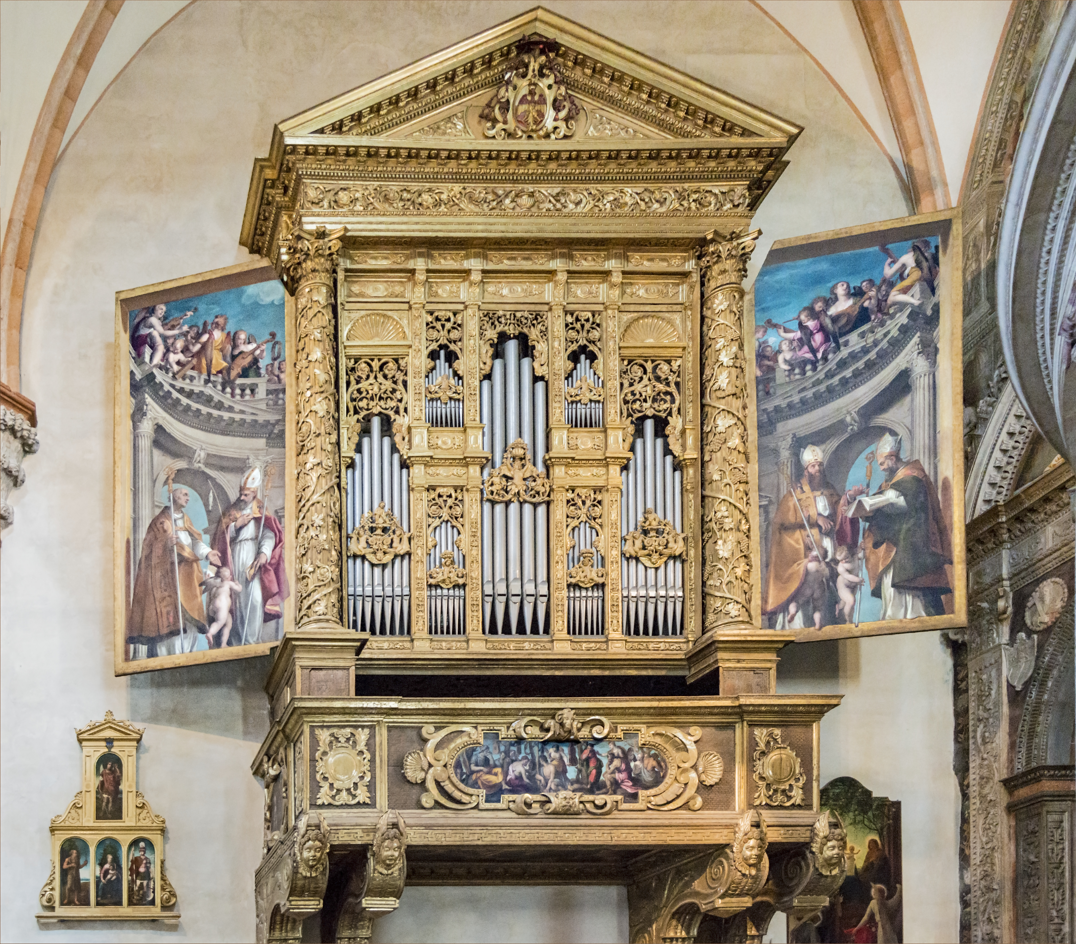 Cathedrale Santa Maria Matricolare. The buffet of organ and cantoria are carved and gilded. The whole is embellished with paintings by Felice Riccio. The inner doors : Four Bishops of Verona and in external Dormition Virginis.